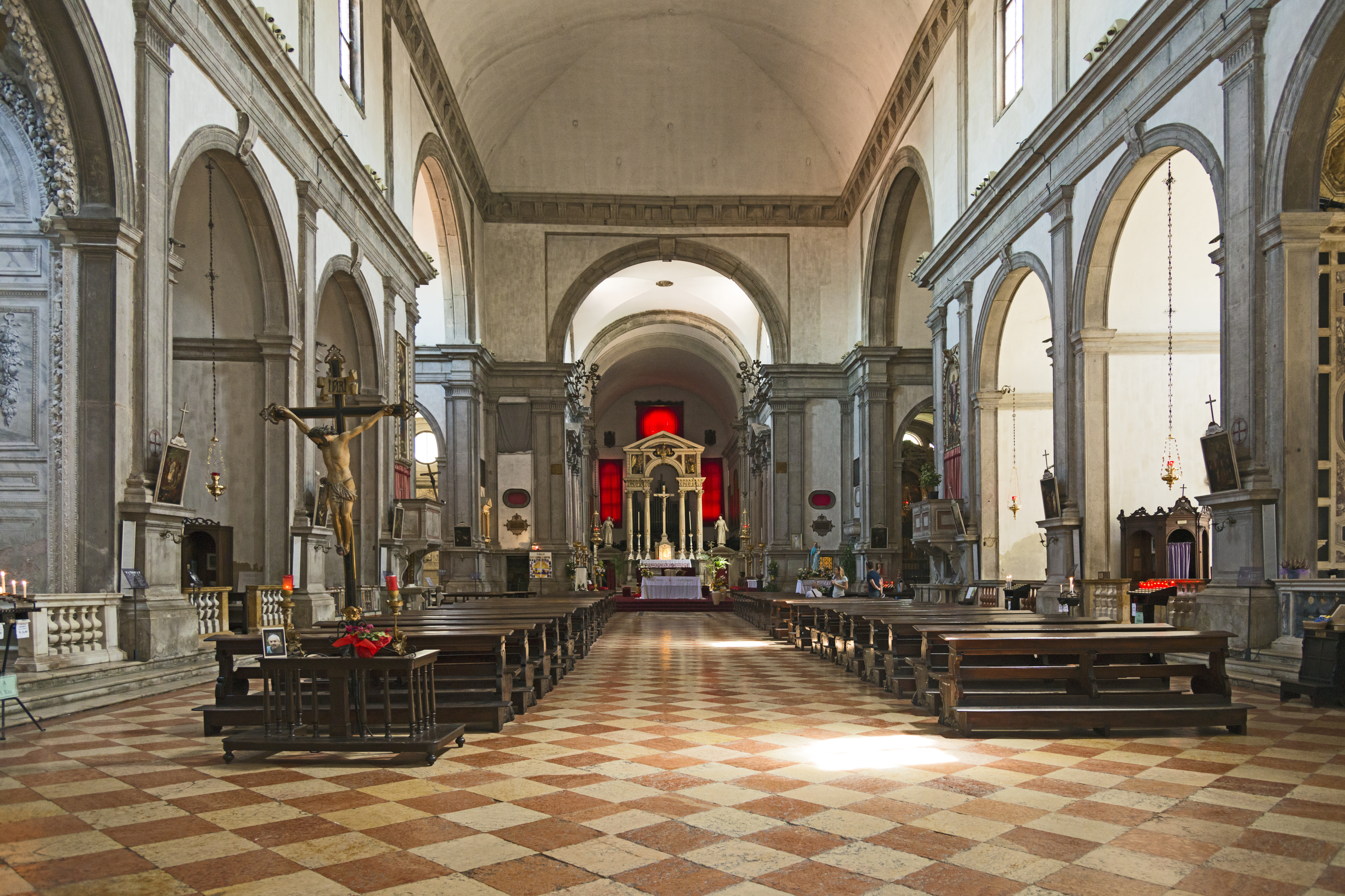 Interior of Church San Francesco della Vigna (Venice).